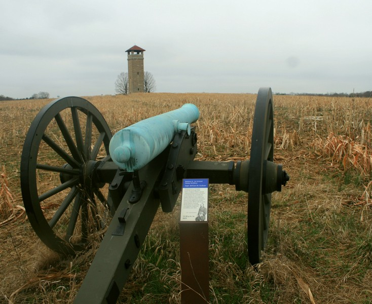 Antietam battlefield. Here Gen. Israel Richardson was mortally wounded.